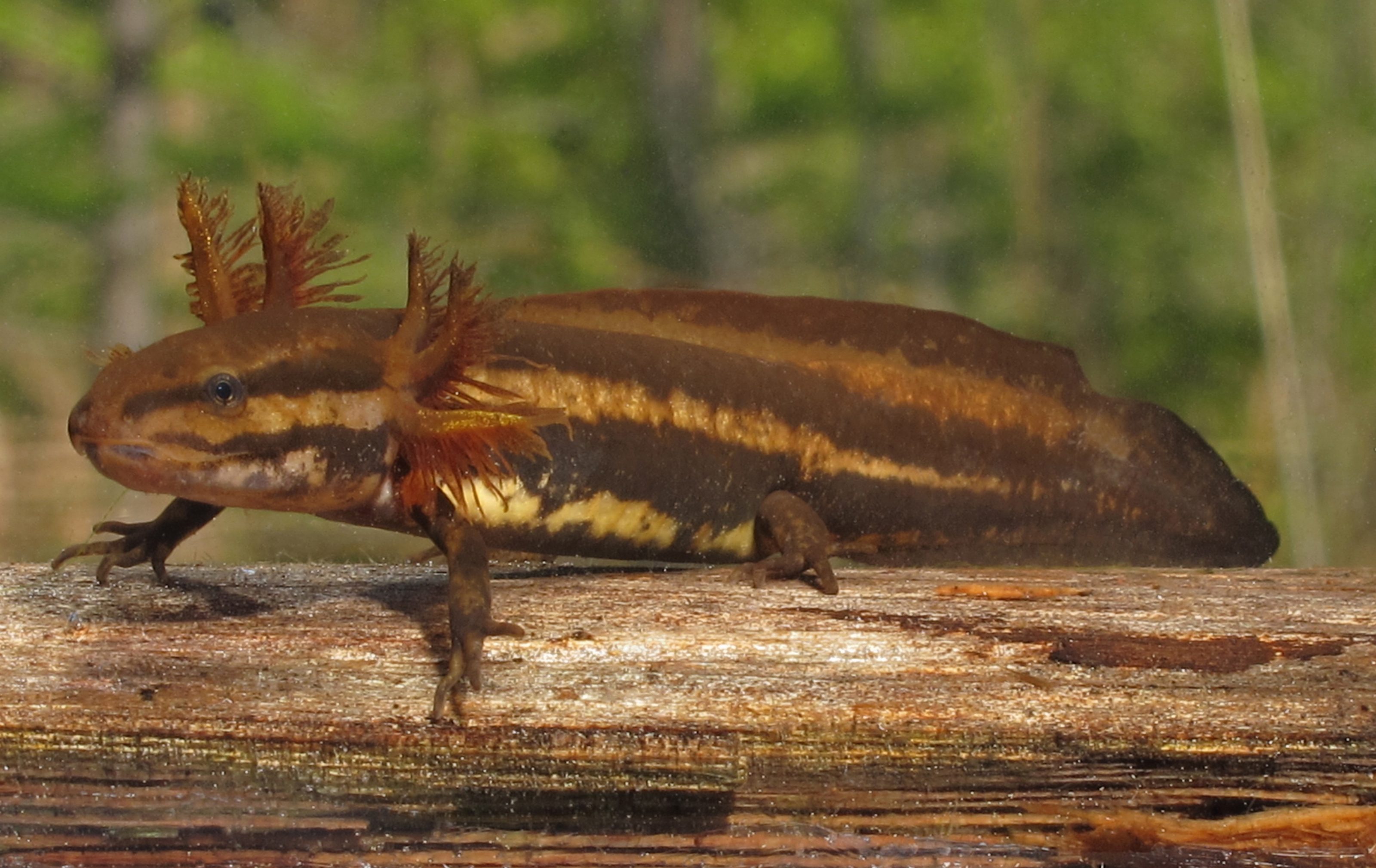 This photo of the Federally Threatened Frosted Flatwoods Salamander (Ambystoma cingulatum) shows this animal at an advanced larval stage. The adults look very different! It was found in the St. Marks National Wildlife Refuge in Florida. Historically, scattered populations occurred in restricted habitats in South Carolina, Georgia, Florida, and Alabama. However, this species has not been found in Alabama since the early 1970s. This animal was captured under a permit issued to the U.S. Geological Survey by the U.S. Fish and Wildlife Service. It was photographed and released unharmed. Photo credit: Alan Cressler (acressler on Flickr)